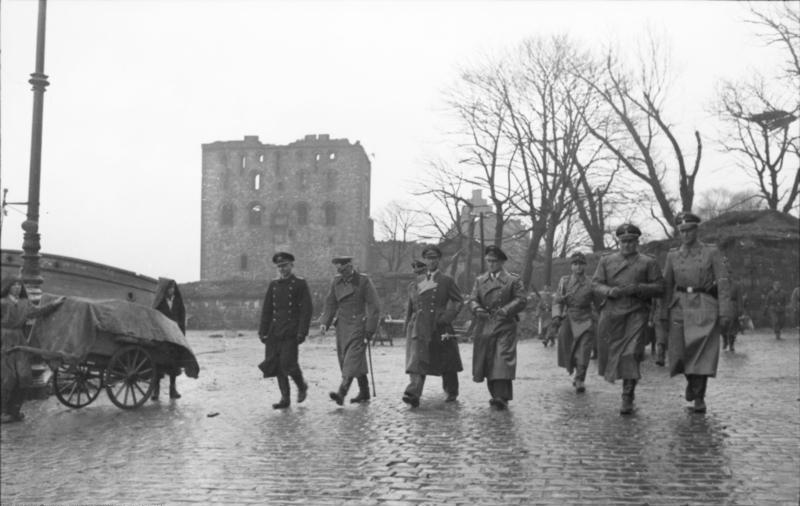 Information added by Wikimedia users.